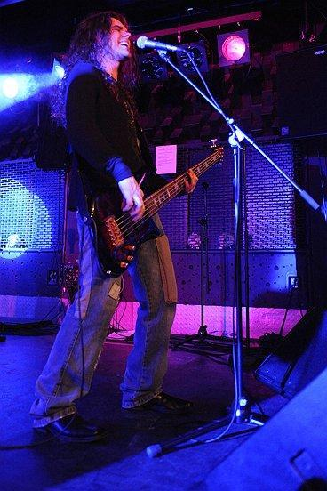 Matt McKenna (House Of Lords) performing live in Budapest, Hungary, during their 2008 Come To My Kingdom World Tour.